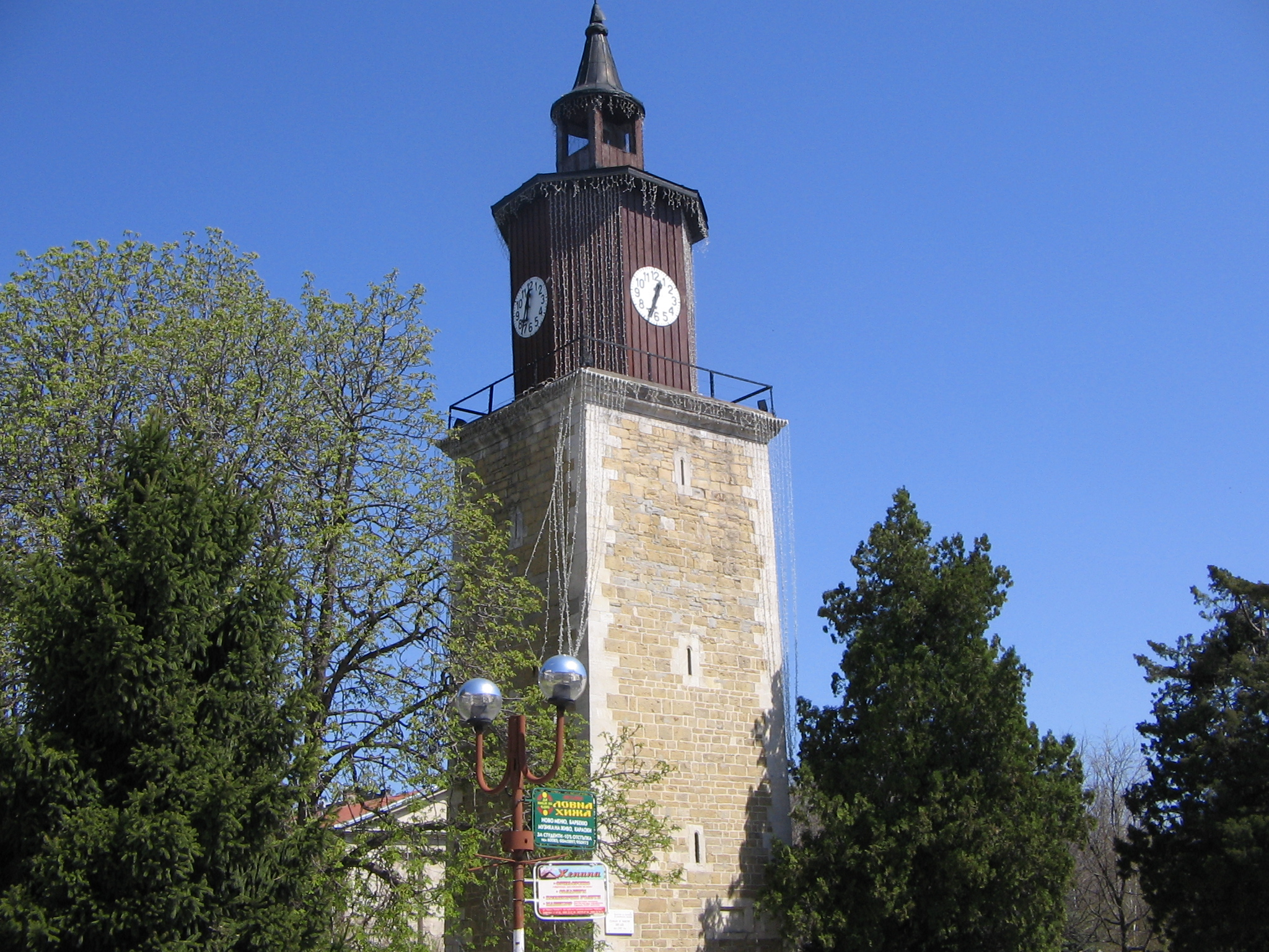 Clock tower in the town of Svishtov, Bulgaria